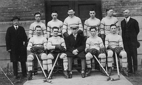 Regina Pats ice hockey team at Toronto, Canada.